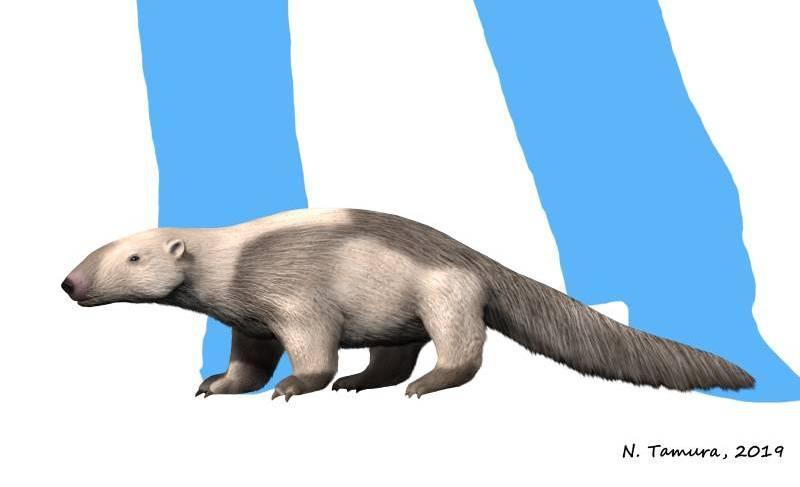 Life reconstruction of Metacheiromys marshi